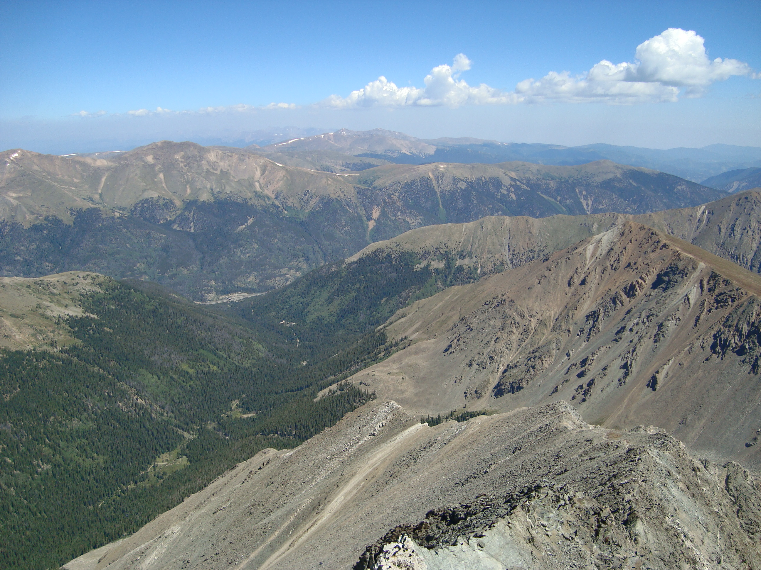 View from Torreys Peak to the northeast, Interstate 70 in the middle-left